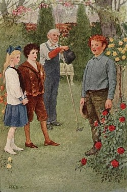 illustration from chapter 26, The Secret Garden